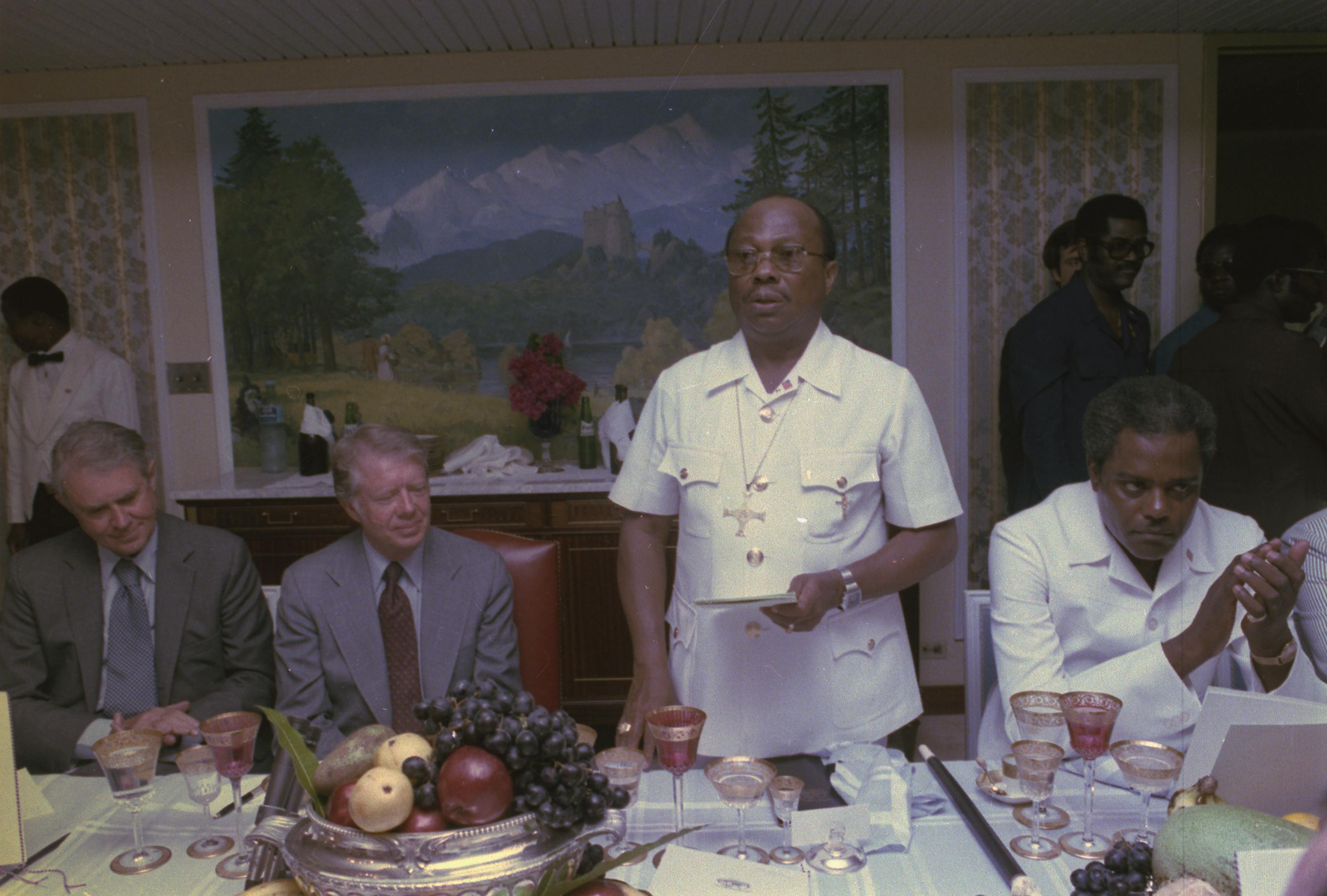 Jimmy Carter and Cyrus Vance attend a luncheon hosted by William Tolbert, 04/03/1978.